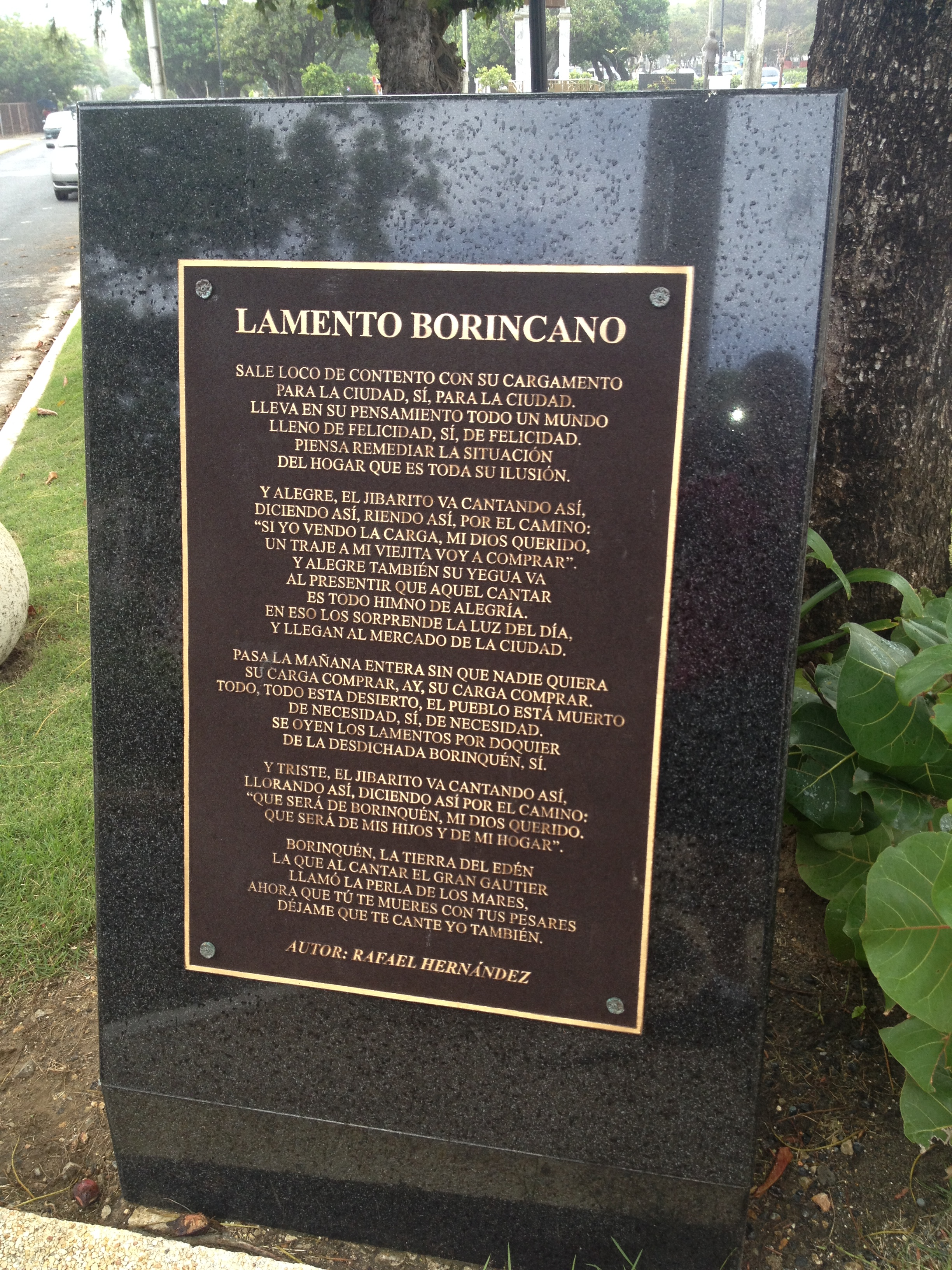 This is a picture of the monument to the "Lamento Borincano" in el Viejo San Juan, a song of Puerto Rico's Rafael Hernández Marín.